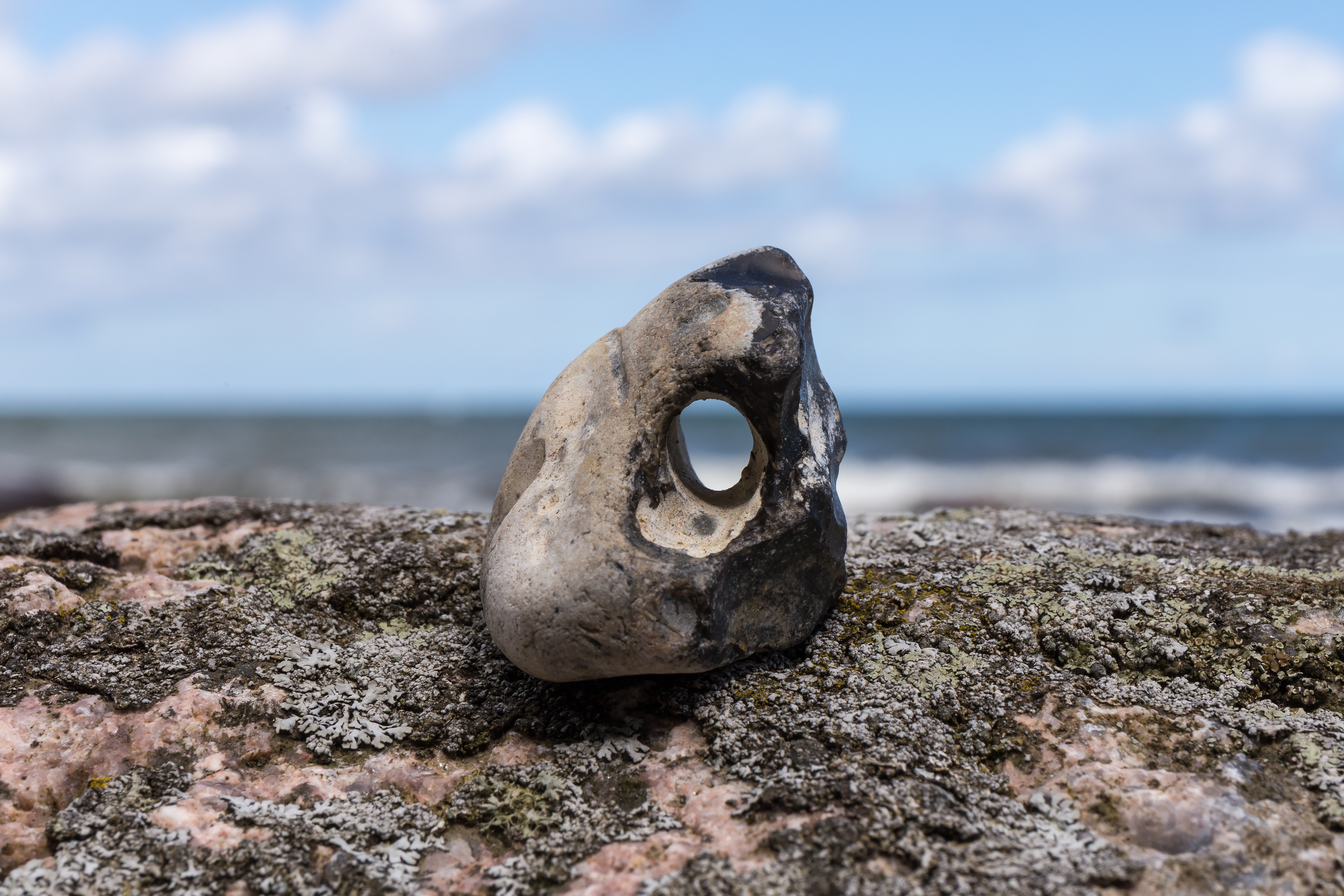 A so called "Hühnergott", a flint with a naturally formed hole. Location: Coast near Lohme (Rügen, Germany).